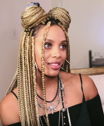 This is a photo of singer-songwriter Jade Novah